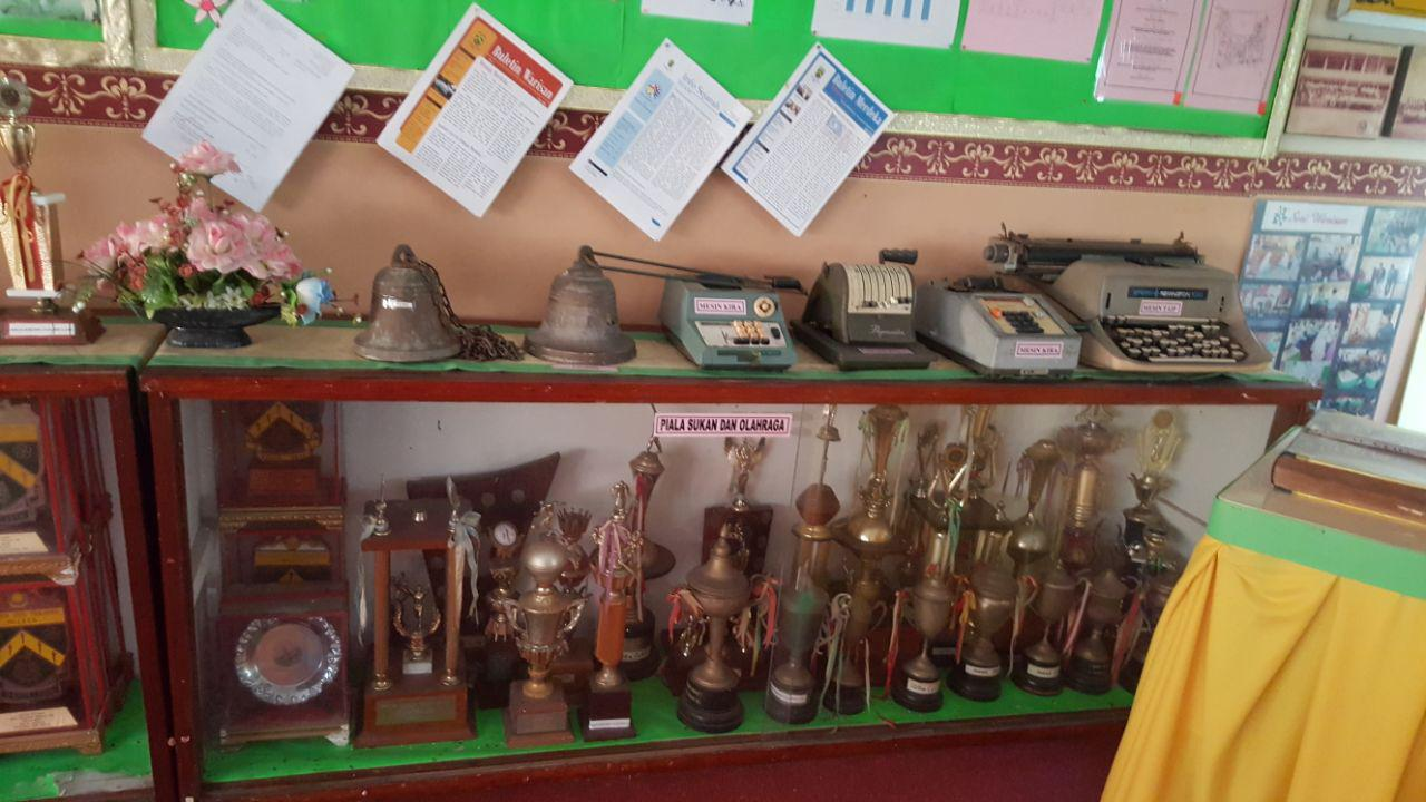 almari lama